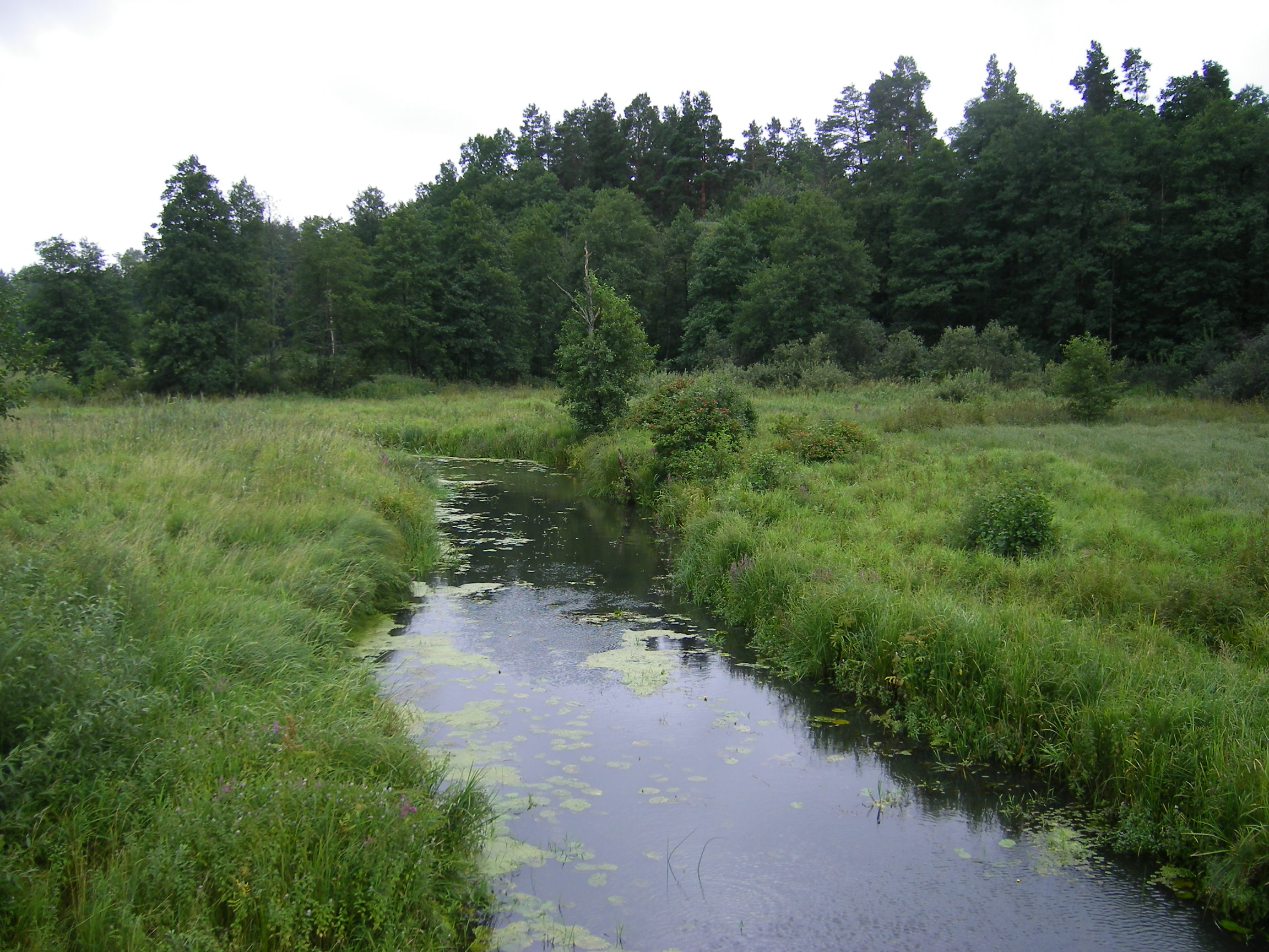 Narew river in northern Belavezhskaya Pushcha, near village Rudnya